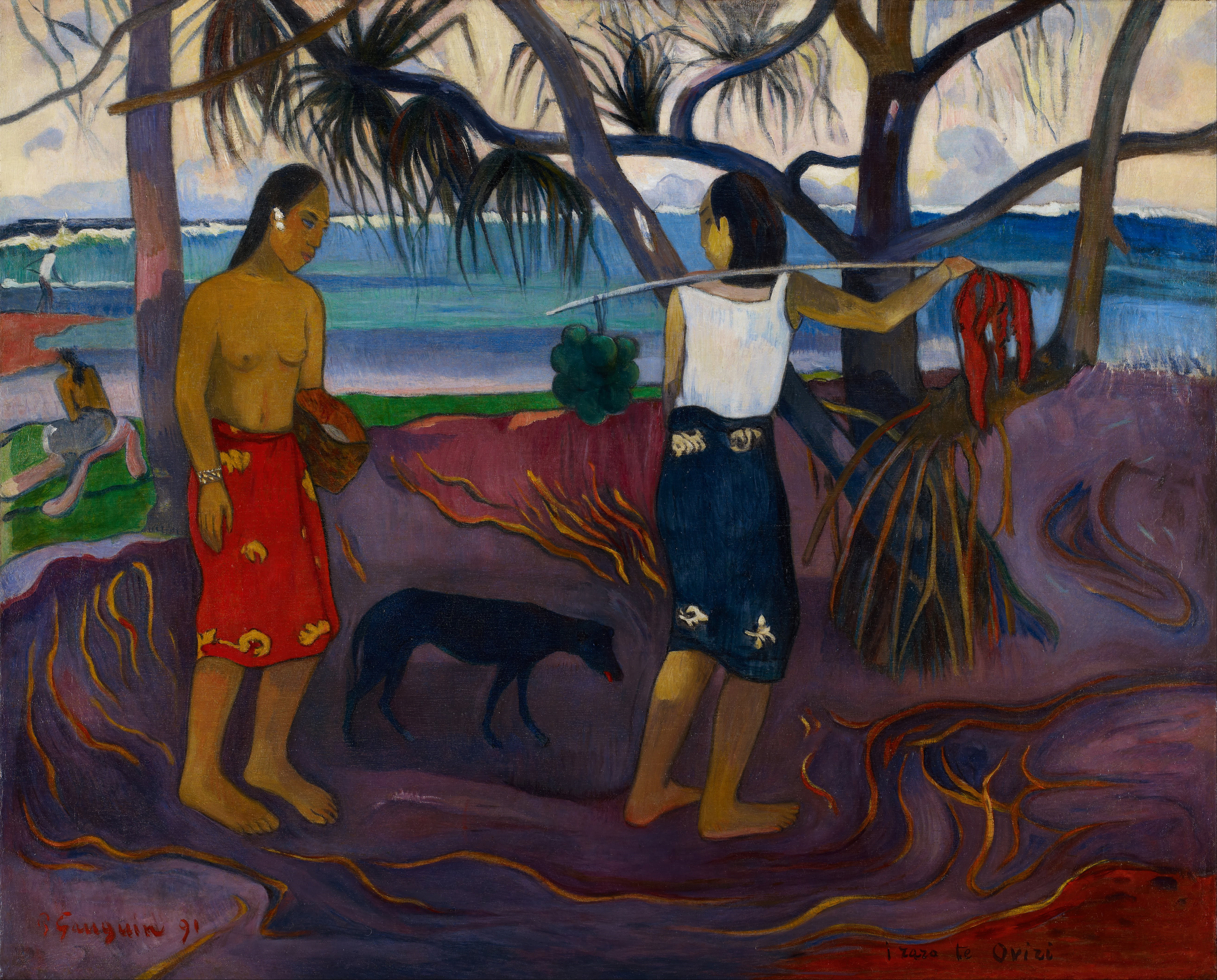 This is a second version of I raro te oviri (I), now held by the Dallas Museum of Art